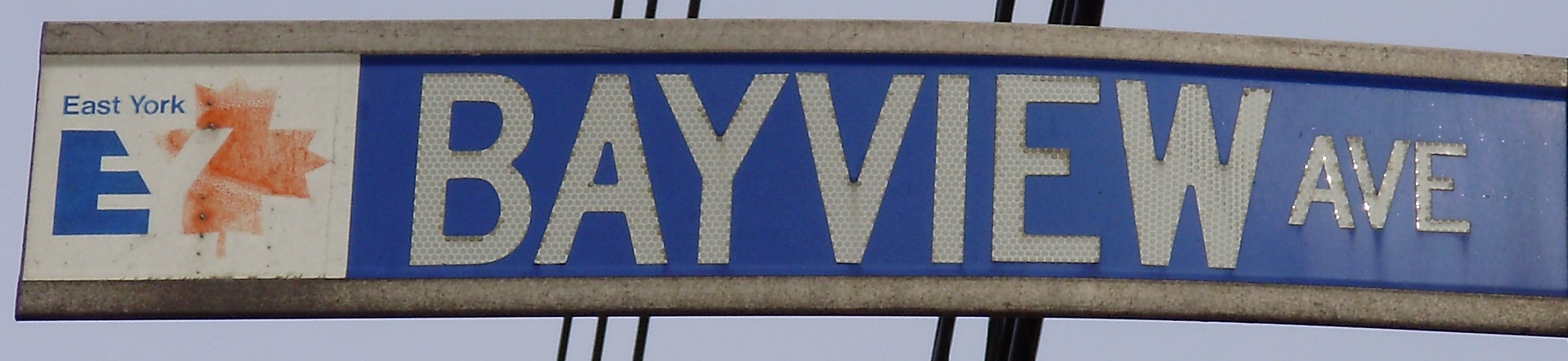 A street sign for Bayview Avenue in the design of the former city of East York, found at the intersection of Bayview and Eglinton Avenue East in Toronto, Ontario, Canada.